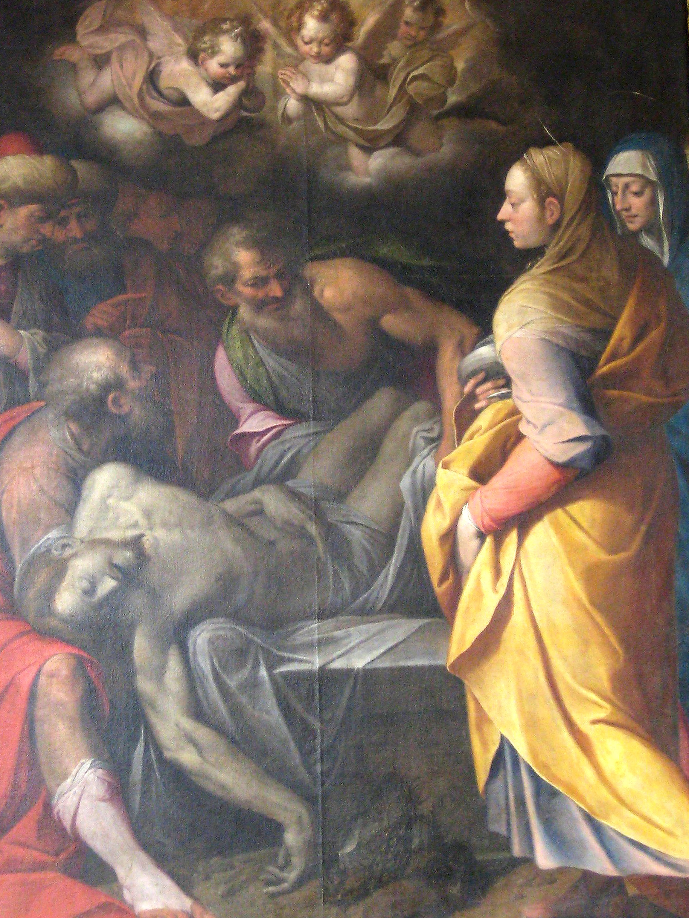 Mary Magdalene at the entombment of Christ. Mary Magdalene ist painted after Salome Alt